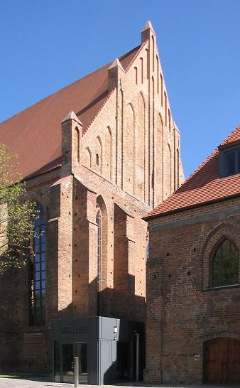 Former dominican monastery St. Pauli in the city Brandenburg an der Havel in the state Brandenburg, Germany.